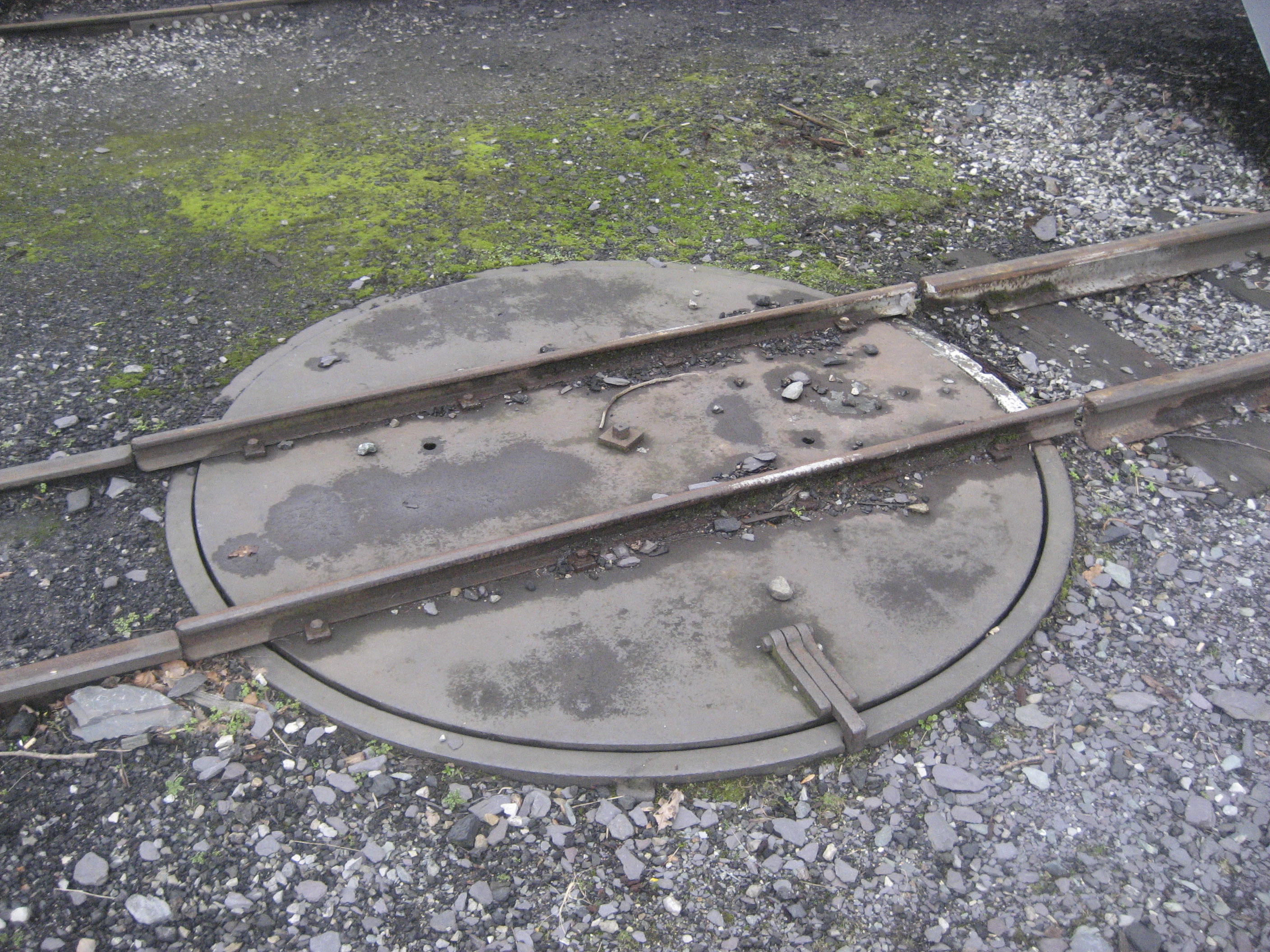 Wagon turntable on 2 ft gauge track at the Welsh Slate Museum, Llanberis, Wales